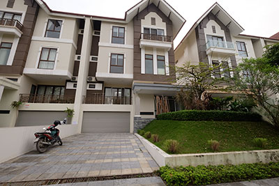 Would you like to rent a luxury villas in Vinhome Riverside Hanoi? And if you are looking for a high-class serviced villas in Vinhomes Riverside compound with comprehensive services, lush ecological gardens in a quiet and peaceful neighborhood.